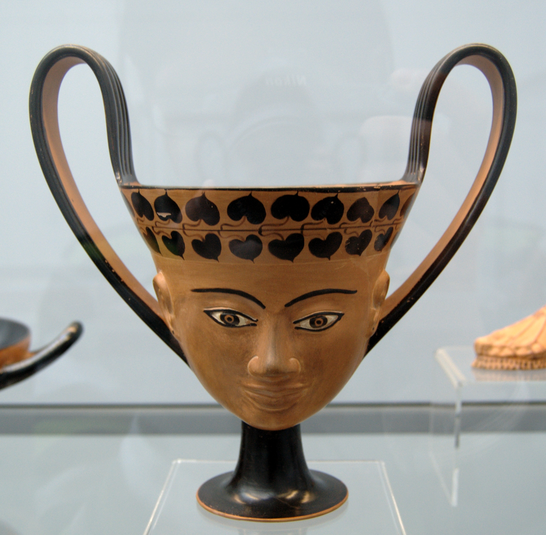 Janiform black-figured kantharos, East Ionia, ca. 540 BC.